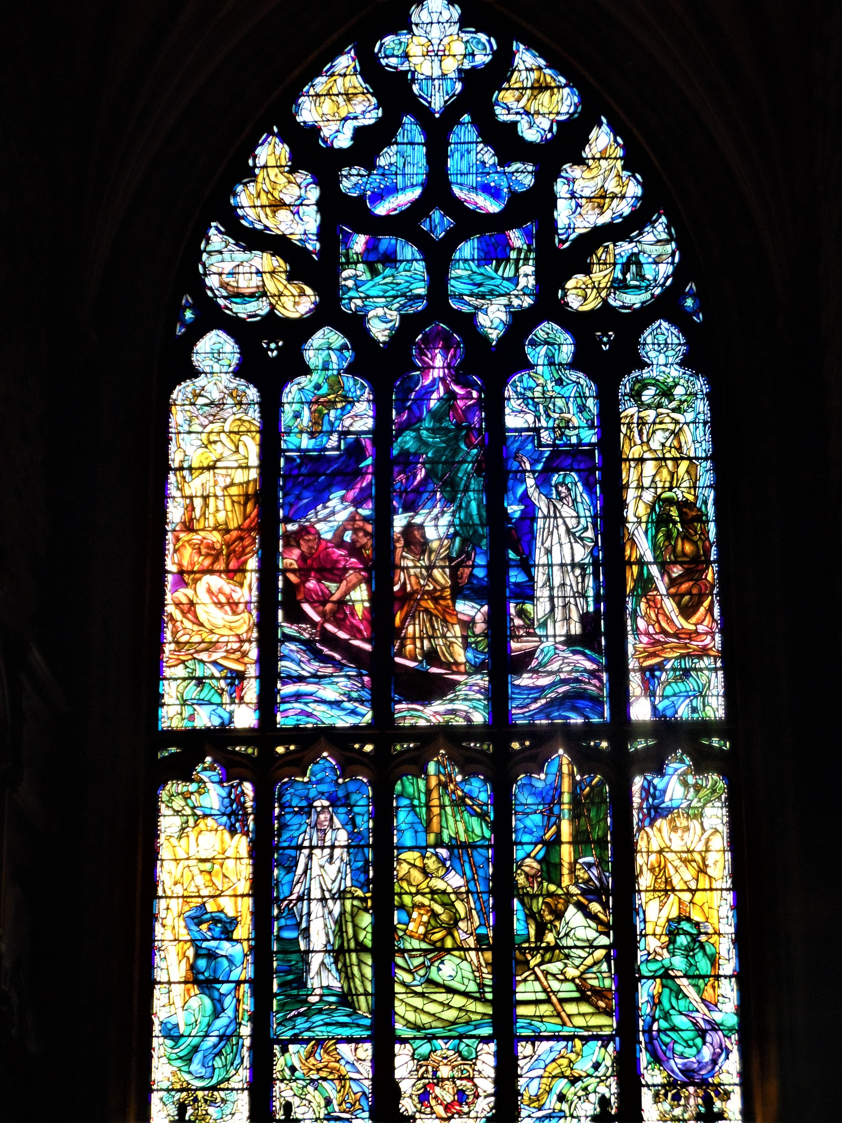 Stained glass, Edinburgh